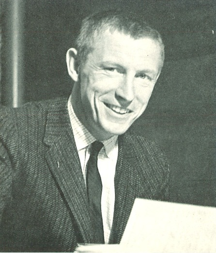 Jerry Burns, University of Iowa football coach